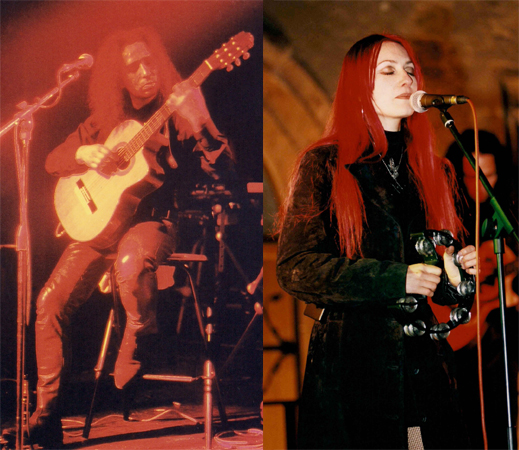 Ordo Equitum Solis Photo right: Leithana.